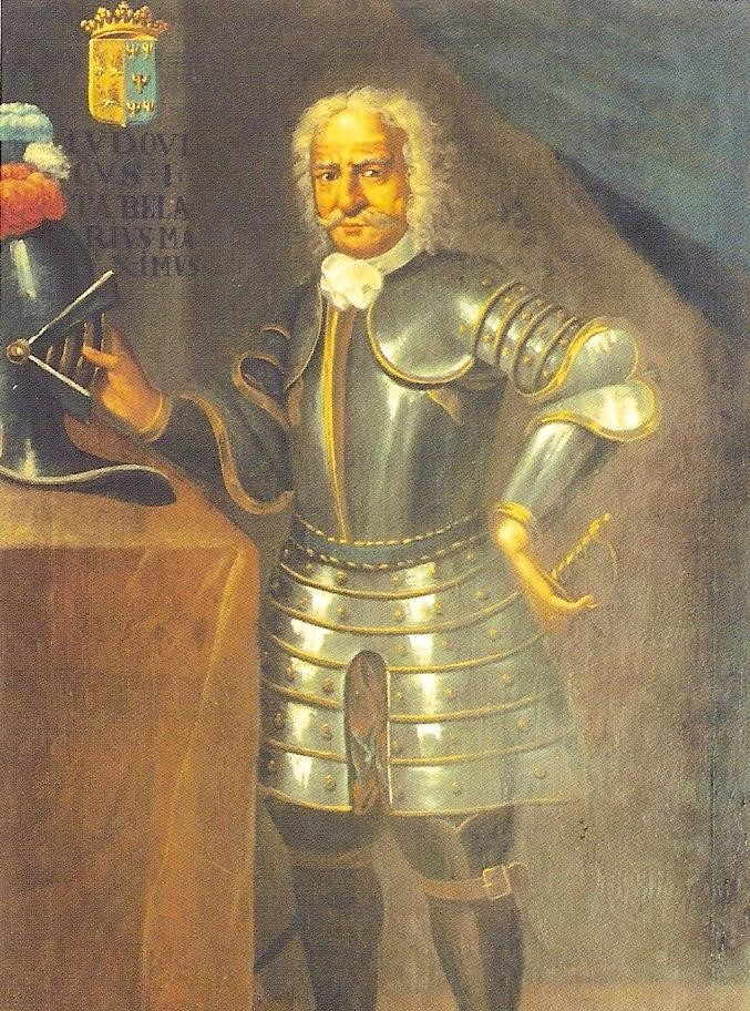 A portrait